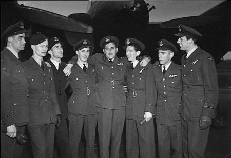 AWM caption: England. C. 1944. Group portrait of the pilots and navigators of the four Canadian Mosquito crews who successfully engaged the enemy on a recent trip. In a period of eight minutes the four teams destroyed seven enemy aircraft and badly damaged another. From left to right: Flying Officer (FO) J. Caine of Edmonton and his navigator Warrant Officer (WO) E. Boal of Regina, Sask; Flight Lieutenant (Flt Lt) C. Scherf of Glenn Innes, NSW and his navigator FO Al Brown of Winnipeg; the happy commanding officer of the squadron, Wing Commander D. C. S. Macdonald of Vancouver and his navigator Pilot Officer S. Wilson of Leeds, England; Flt Lt J. Johnson of Omemee, Ont and his navigator FO J. Gibbons of Vancouver BC.